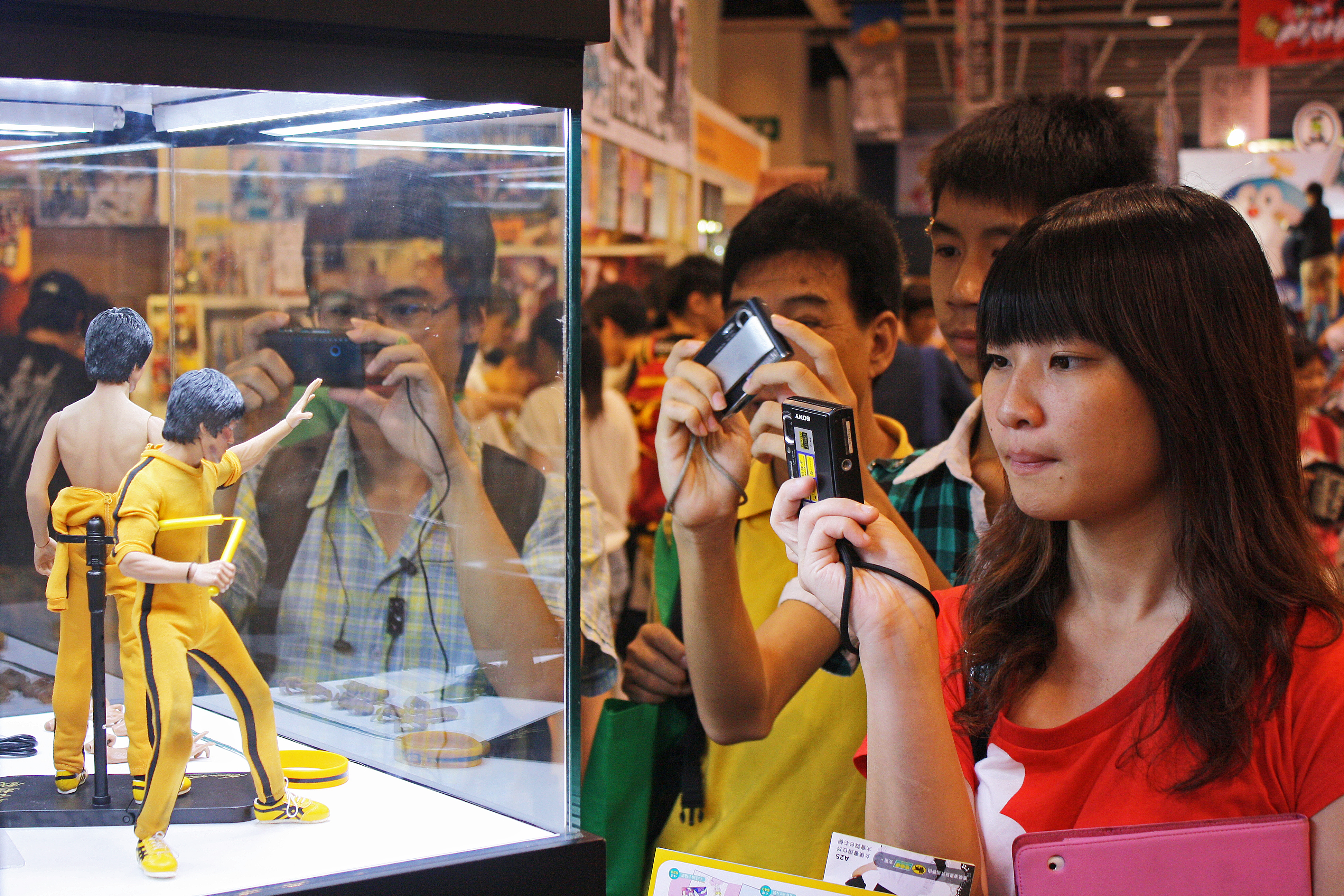 Attendees of the 2011 Animation-Comic-Game Hong Kong (ACGHK) take pictures of a limited edition Bruce Lee “Game of Death” figure by Enterbay. The annual convention is a place to exhibit and sell products related to comic books, animation, games and general pop culture. As seen in the Wall Street Journal Scene Blog.